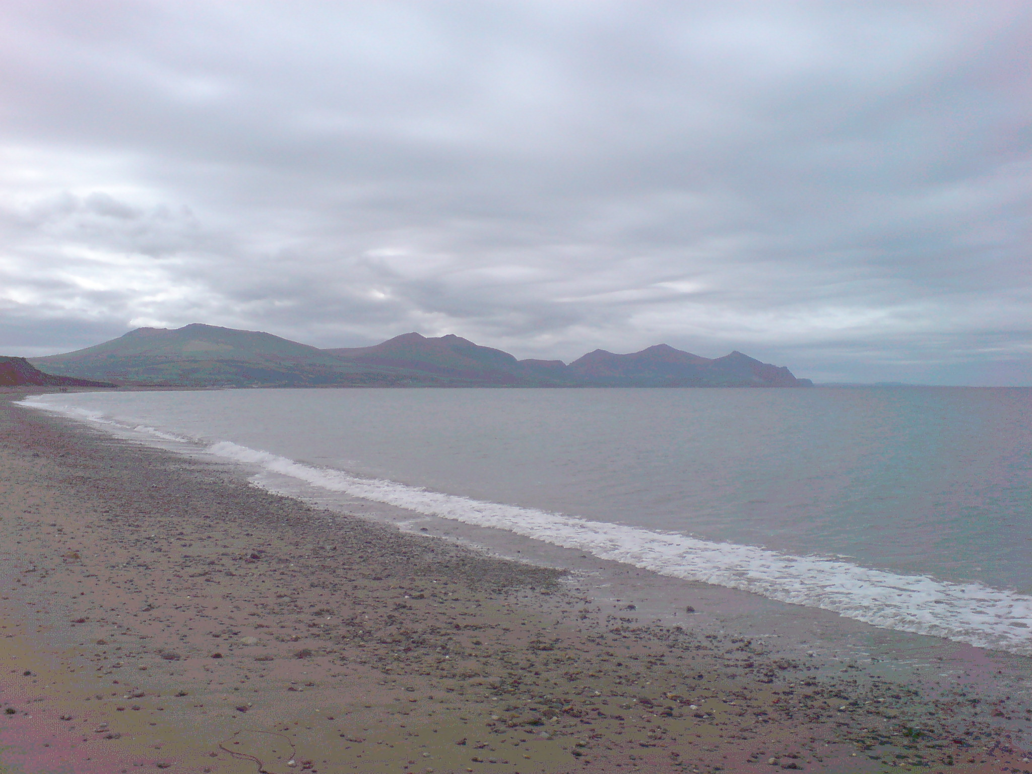 Coast of Dinas Dinlle in Gwynedd, Wales